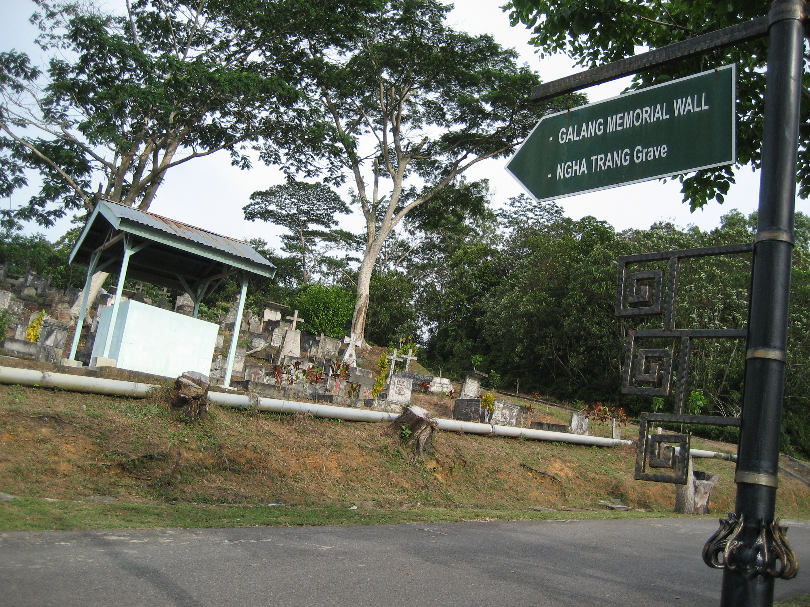 Galang Memorial Refugee grave, in Galang island, Batam, Indonesia